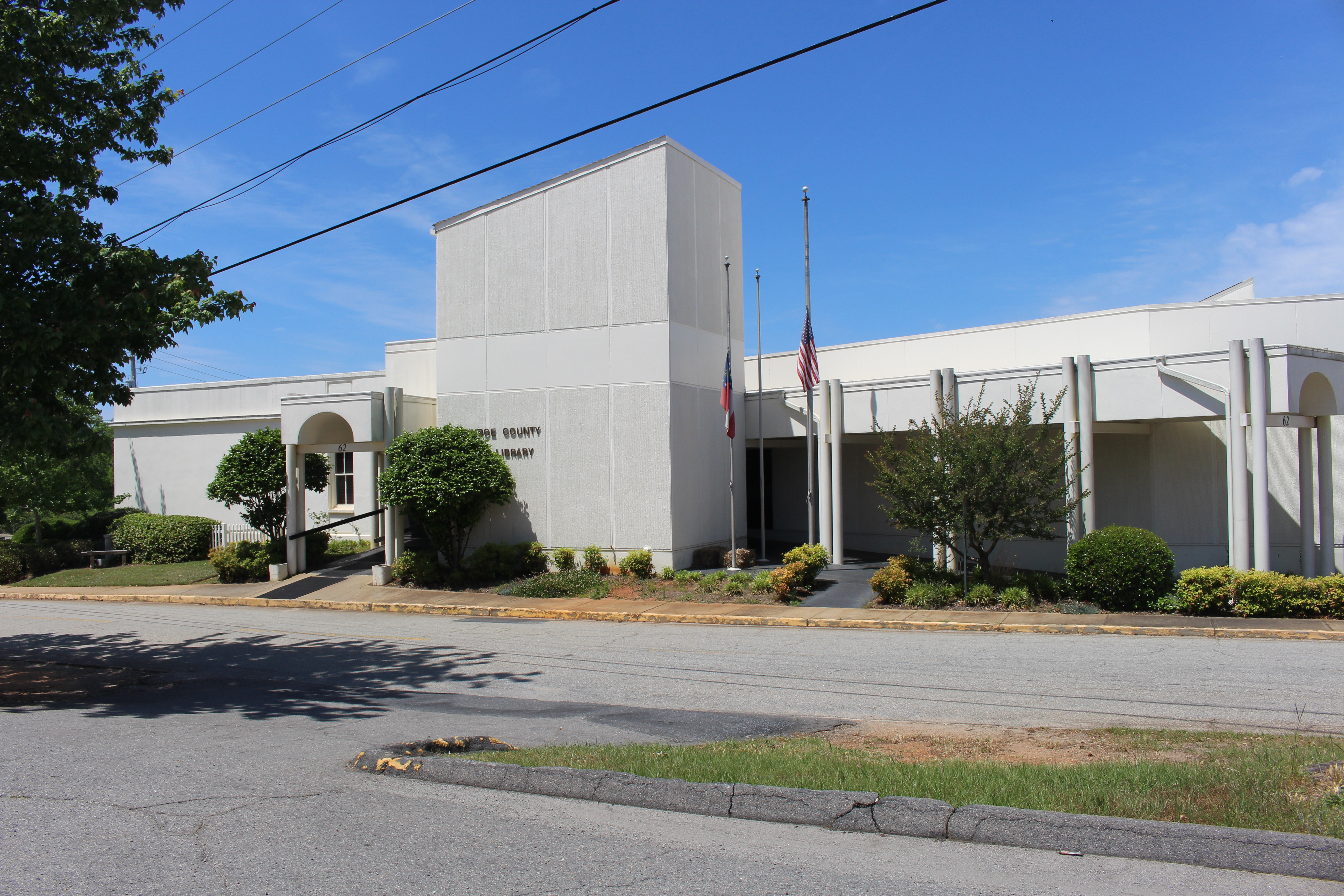 Monroe County Public Library, Forsyth, Monroe County, Georgia. Flags were flying at half staff for Peace Officers Memorial Day.